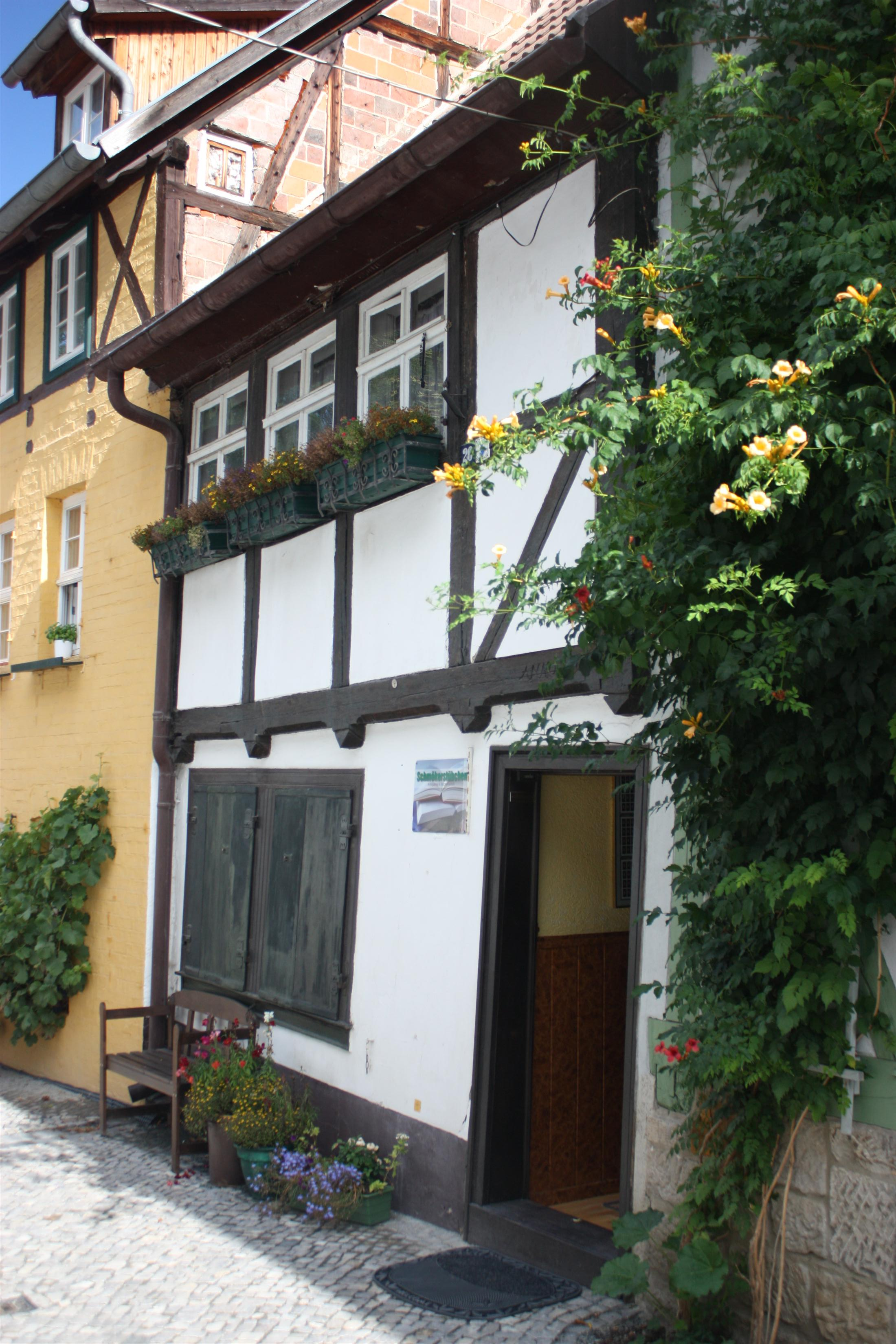 This is a photograph of an architectural monument.It is on the list of cultural monuments of Quedlinburg Quedlinburg Schloßberg